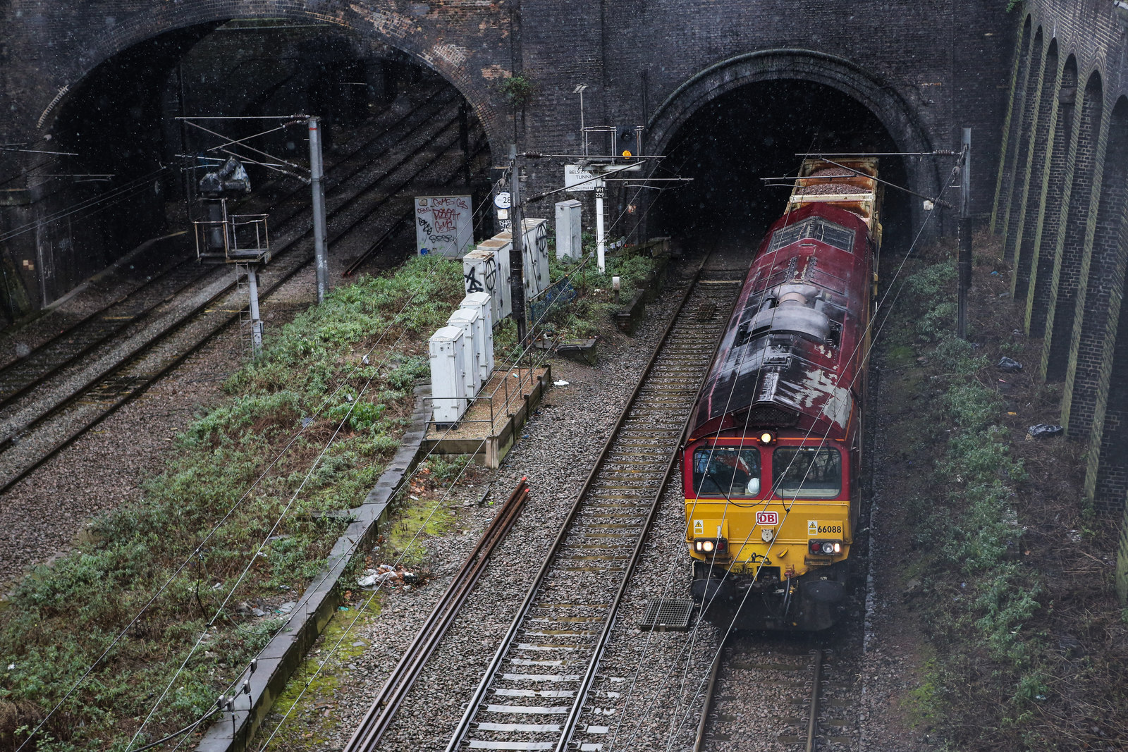 Belsize Tunnels